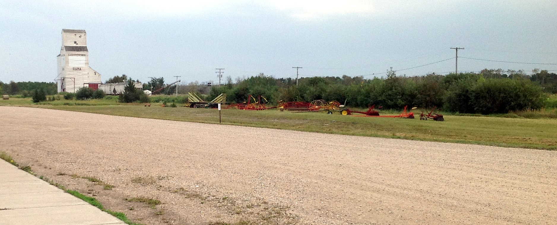 The privately owned grain elevator at Rama, Saskatchewan